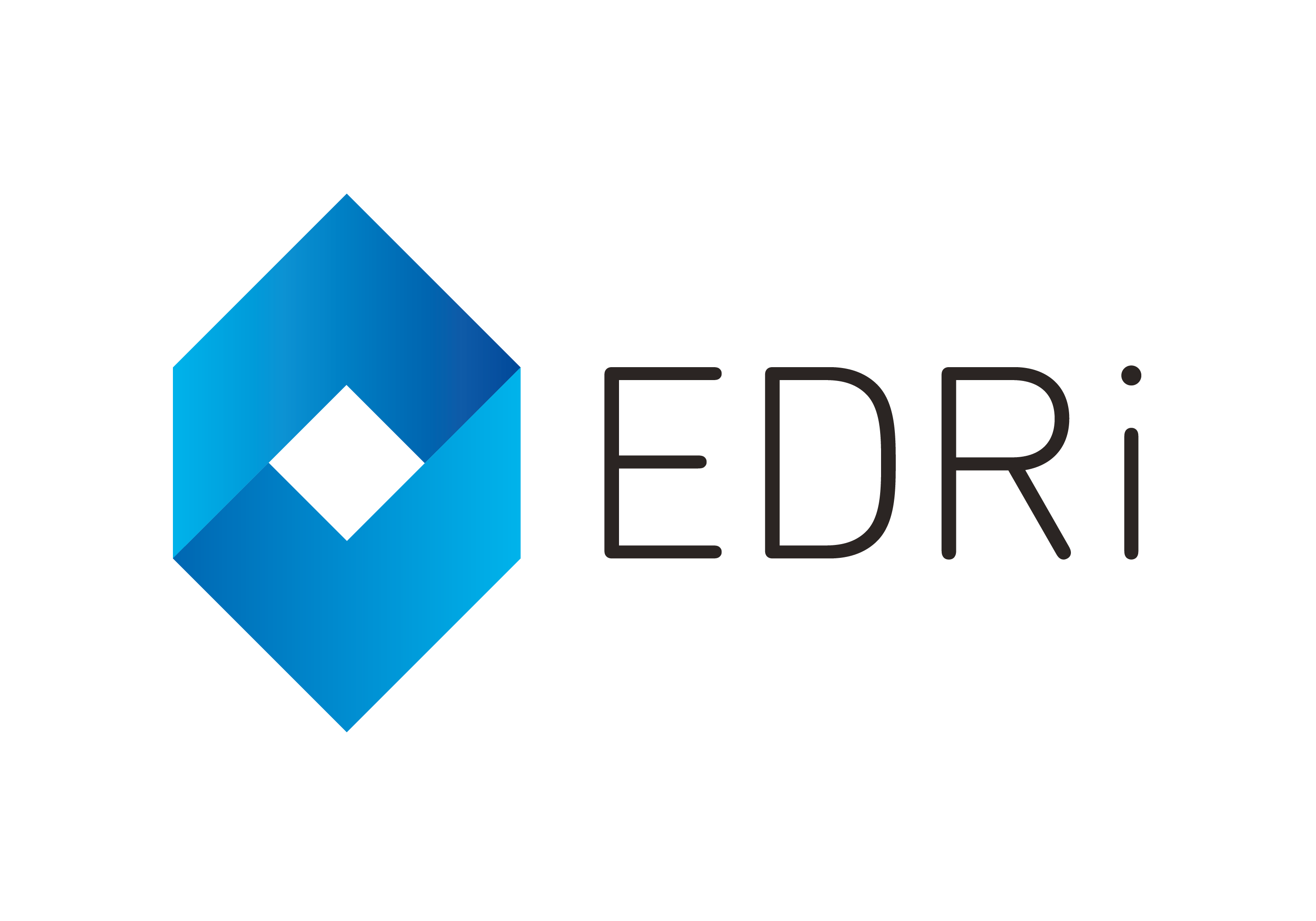 Logo of European Digital Rights